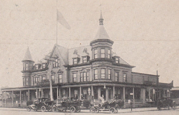 Kipp's Parkway Hotel at Fordham Road and Southern Boulevard, across from the Zoo at the Bronx.